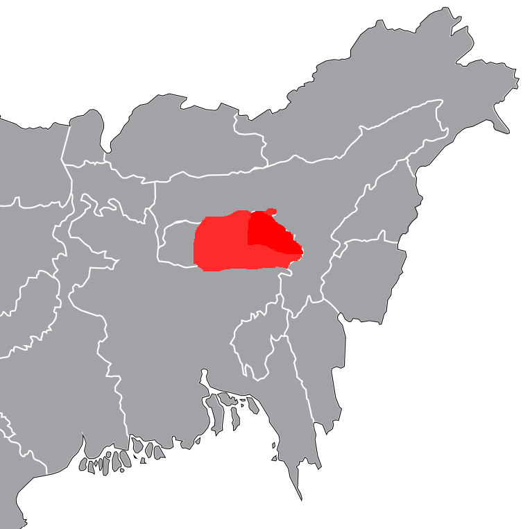 Map of Khasi-speaking areas